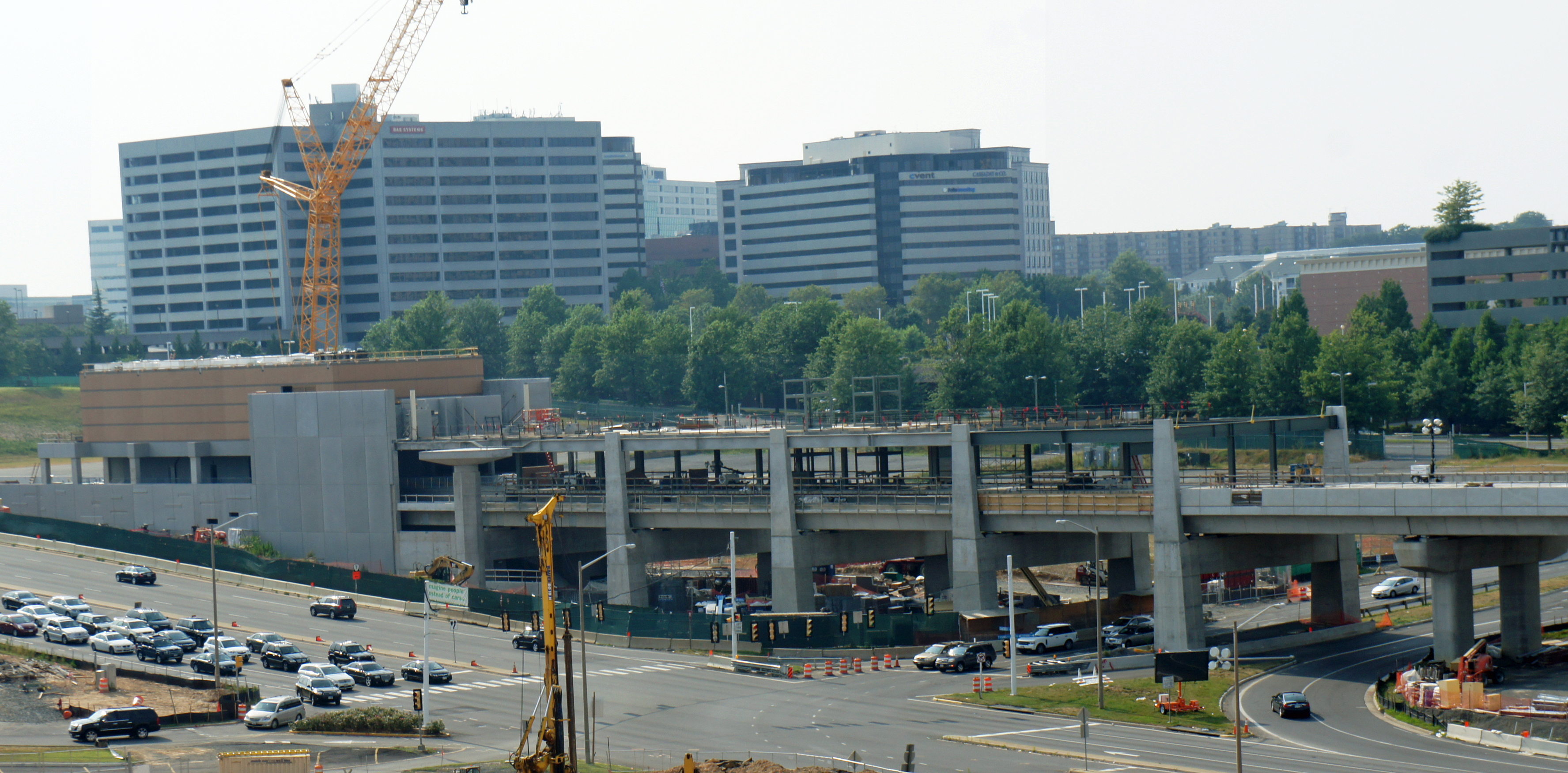 Tysons Central 123 Metro Station under construction on Route 123 at Tysons Boulevard in Fairfax County, Virginia.